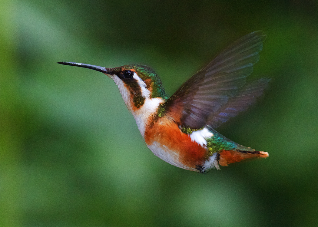 White-bellied Woodstar (female) photo taken at Guango Lodge (east slope), Ecuador.